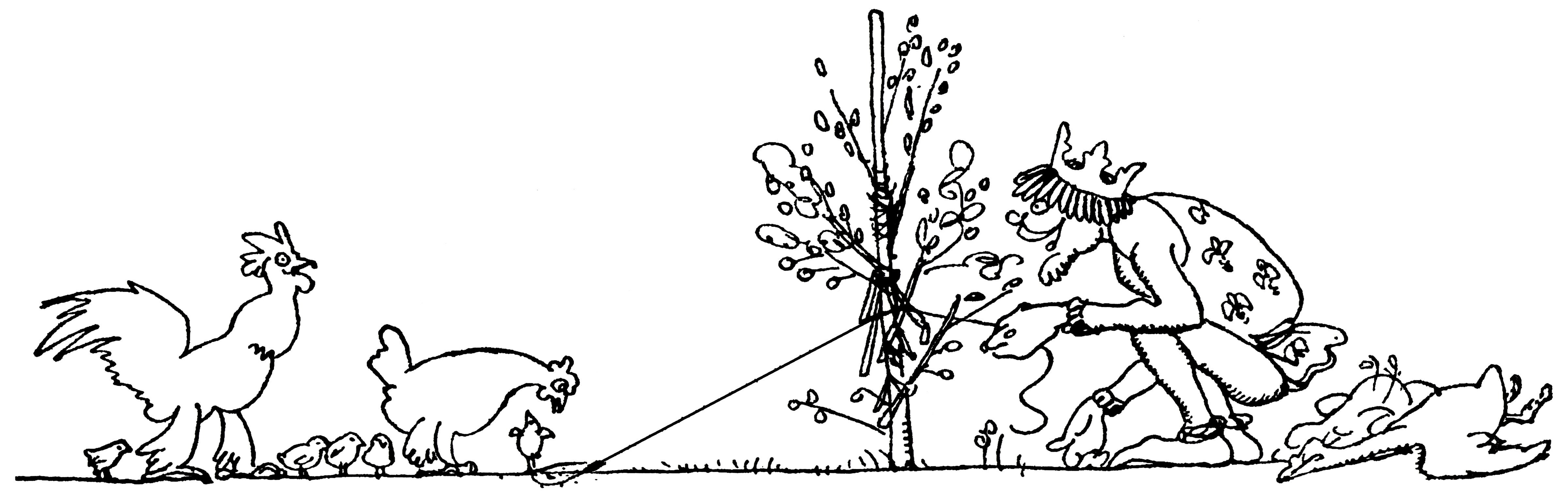 The illustration for the humorous book The General History Edited by Satyricon.